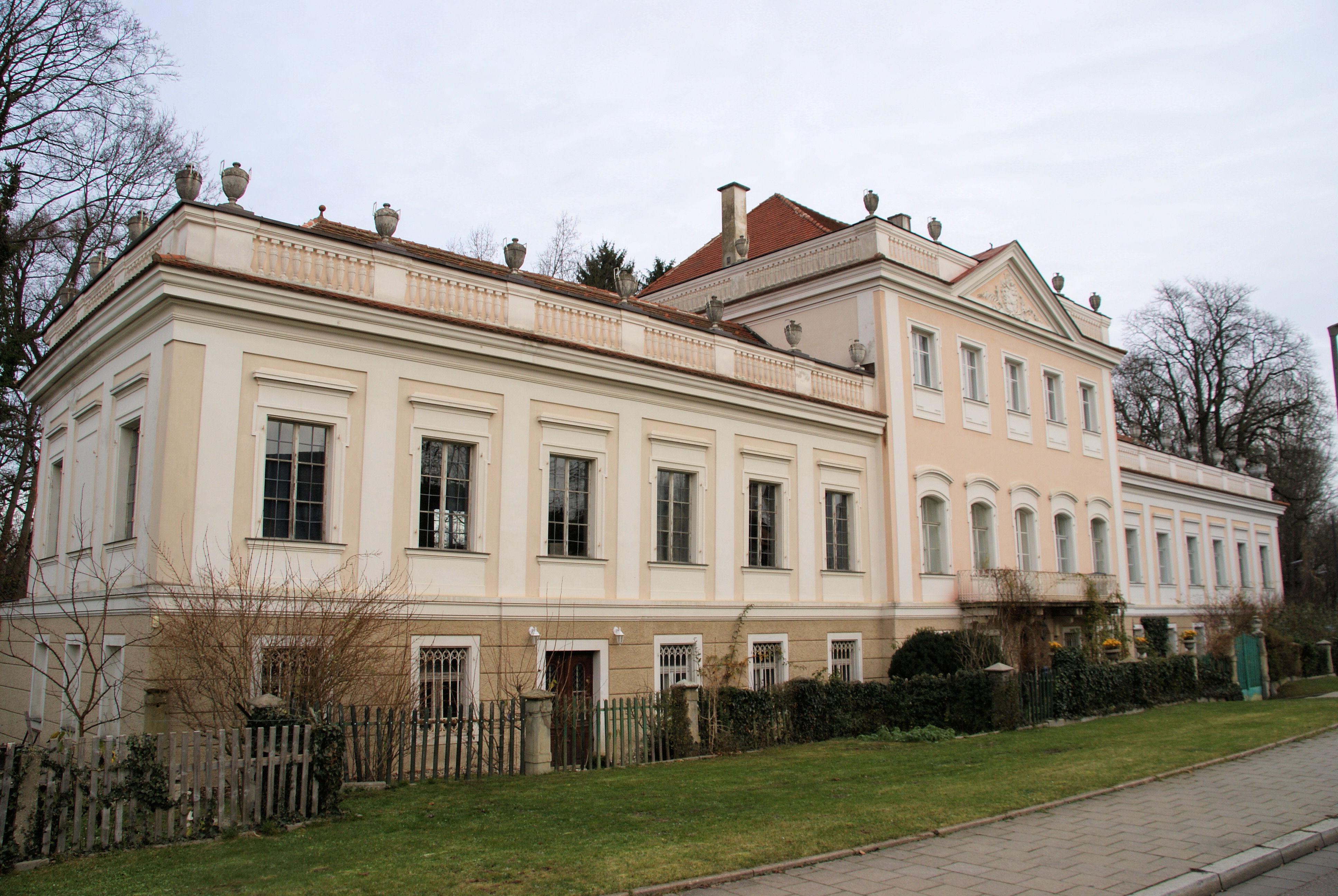 Villa Lauser, a garden palais built 1795 by Josef Sorg for Georg Friedrich von Dittmer.